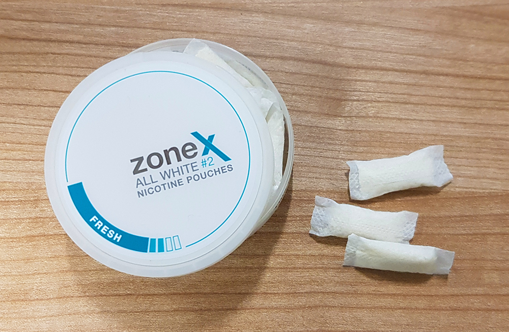 A can of the #2 strength with nicotine pouches.